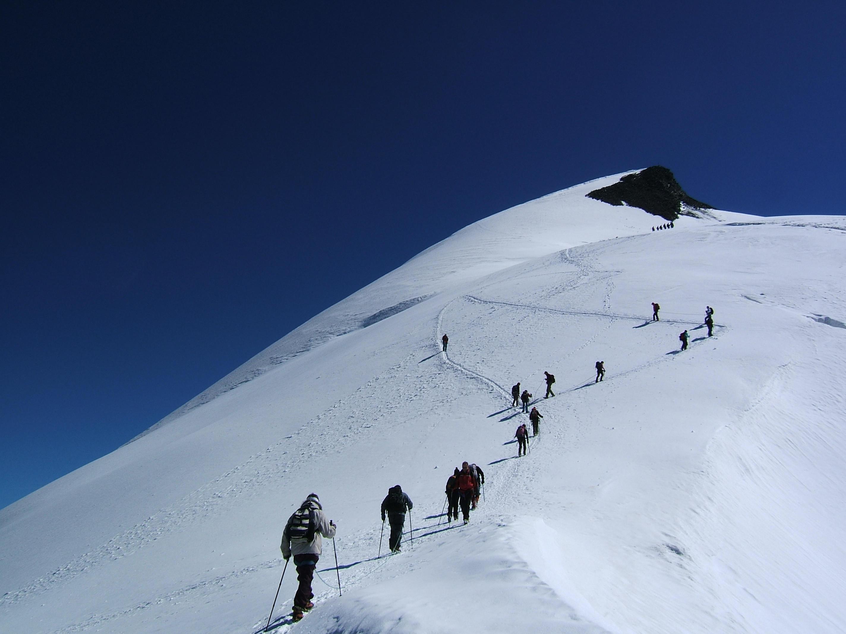 Allalinhorn from Feejoch